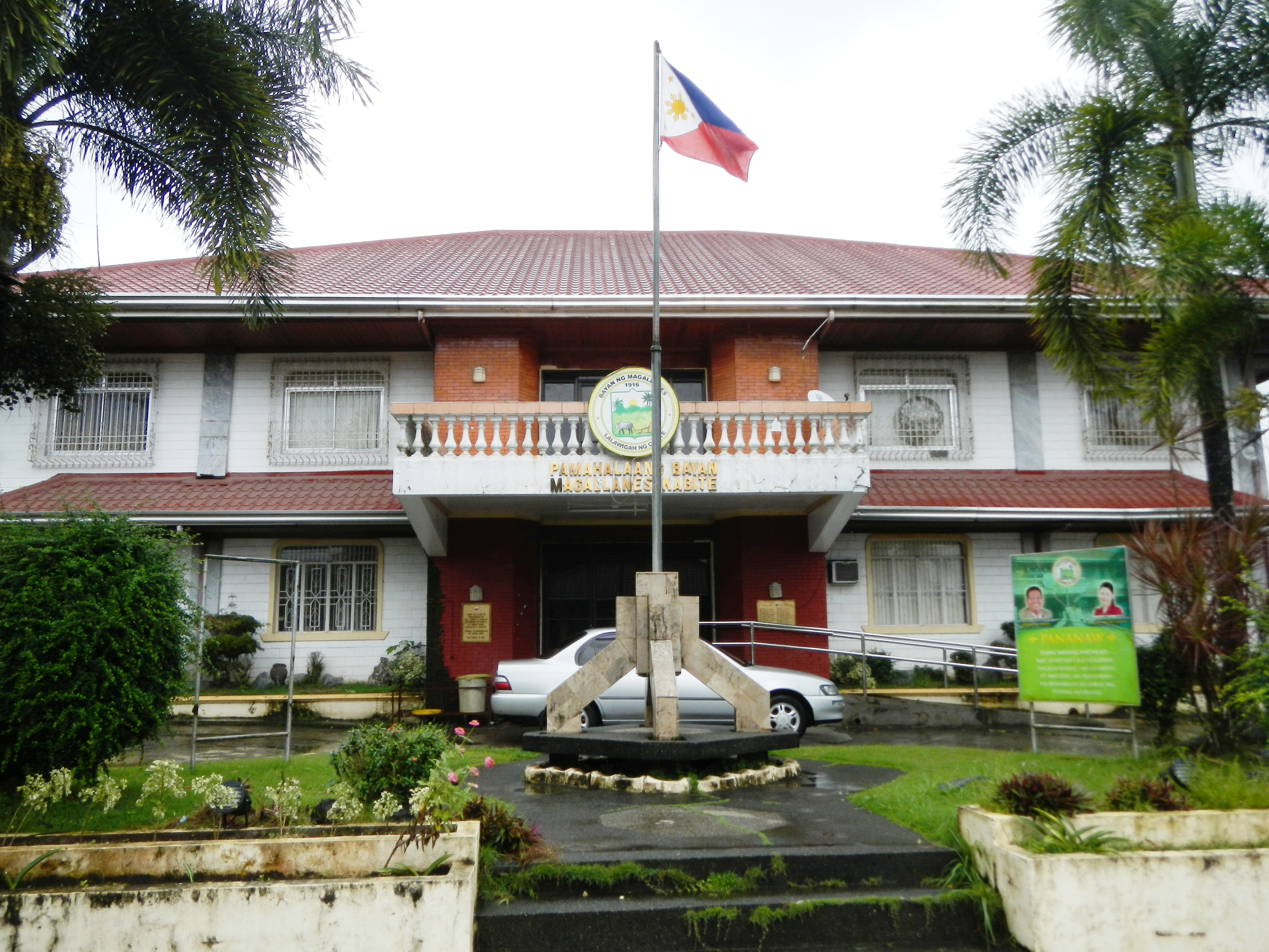 UploadWizard photos - (general description of the angle by angle photography of the landmarks, interesting points, attractions of) -- town proper of -- Magallanes, Cavite [1] [2] (a 5th class municipality in the province of Cavite, [3] Philippines. According to the 2007 census, it has a population of 18,890 people. The town is named after Ferdinand Magellan. [4] Coordinates: 14°10'28"N 120°44'20"E politically subdivided into 16 barangays; the patron saint of the town, Nuestra Señora de Guia[5].[6] Geographical location: Cavite, Region 4, Philippines, Asia Geographical coordinates: 14° 11' 18" North, 120° 45' 27" East Website Cavite) - Anda St. cor. De Guia St., Barangay Dos - Magallanes Town Hall, the Rural Bank of Maragondon, Magallanes Plaza, Covered Court, Grandstand, Rizal Monument, Municipal Cooperative Development Council, De Guia Academy and the Nuestra Señora de Guia Parish Church of Magallanes.